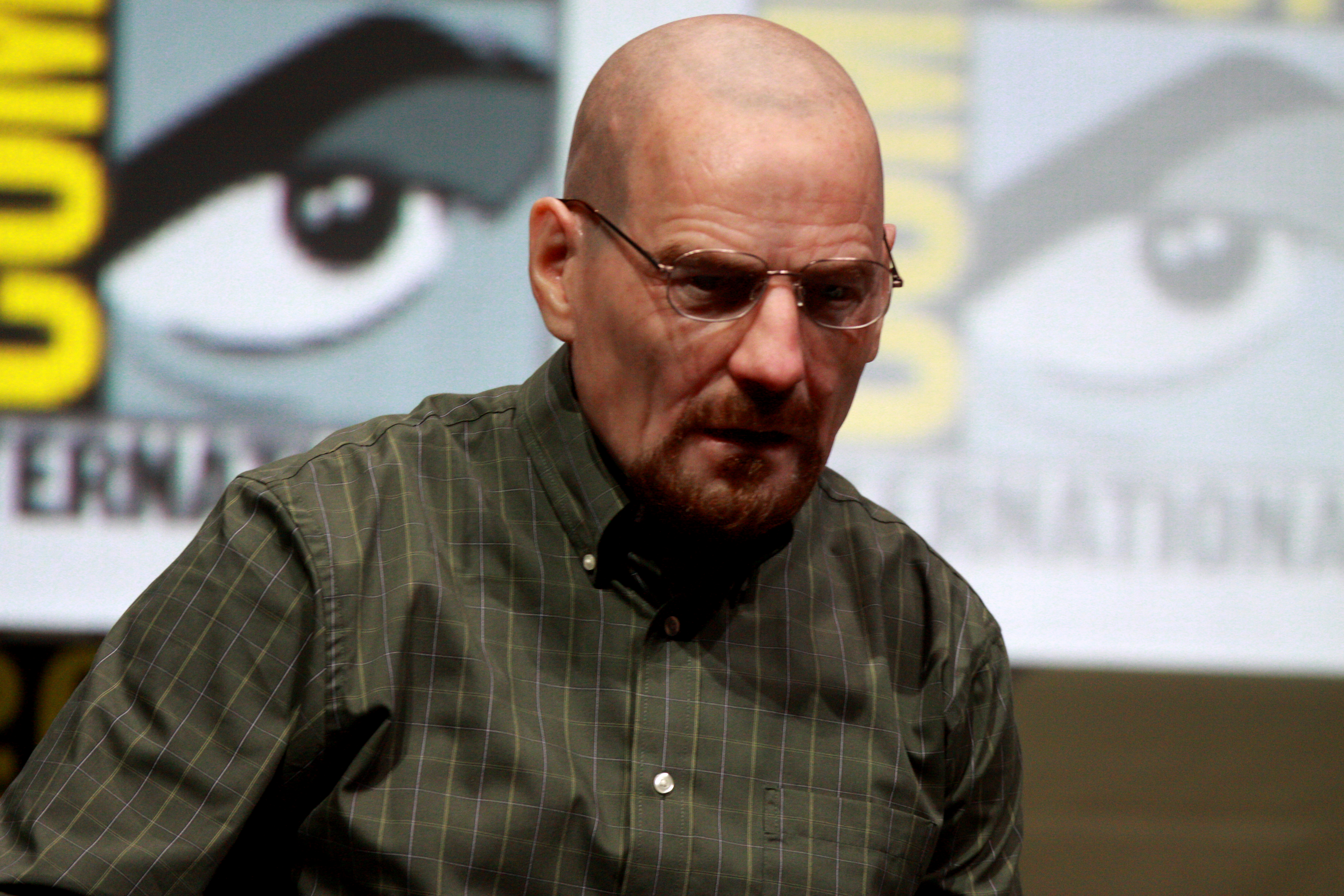 Bryan Cranston speaking at the 2013 San Diego Comic Con International, for "Breaking Bad", at the San Diego Convention Center in San Diego, California.